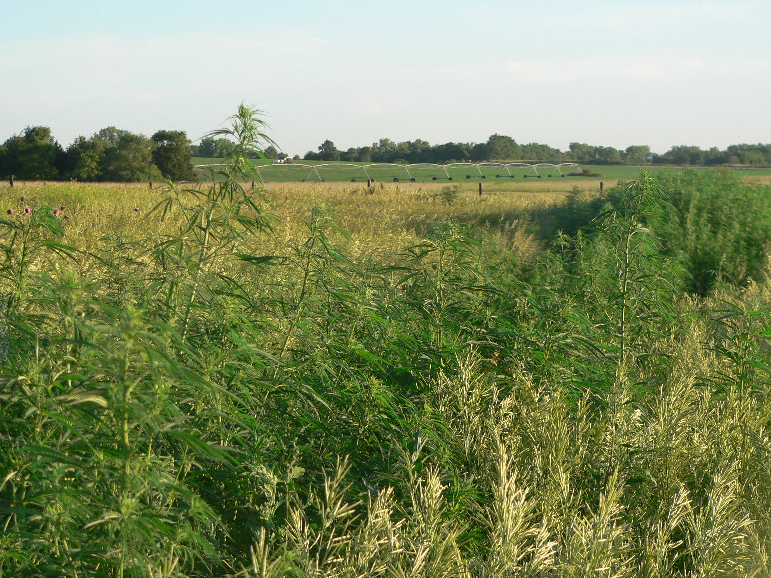 Marijuana growing in a ditch in Buffalo County, Nebraska; photographed in mid-June.